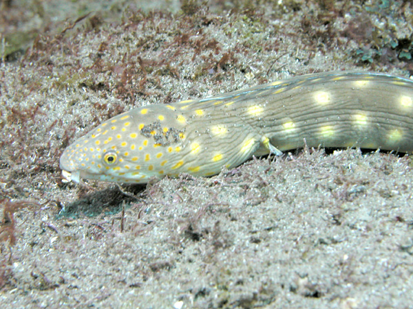 Sharptail Snake Eel (Myrichthys breviceps), Saba, Dutch Antilles. Image taken by Clark Anderson/Aquaimages.